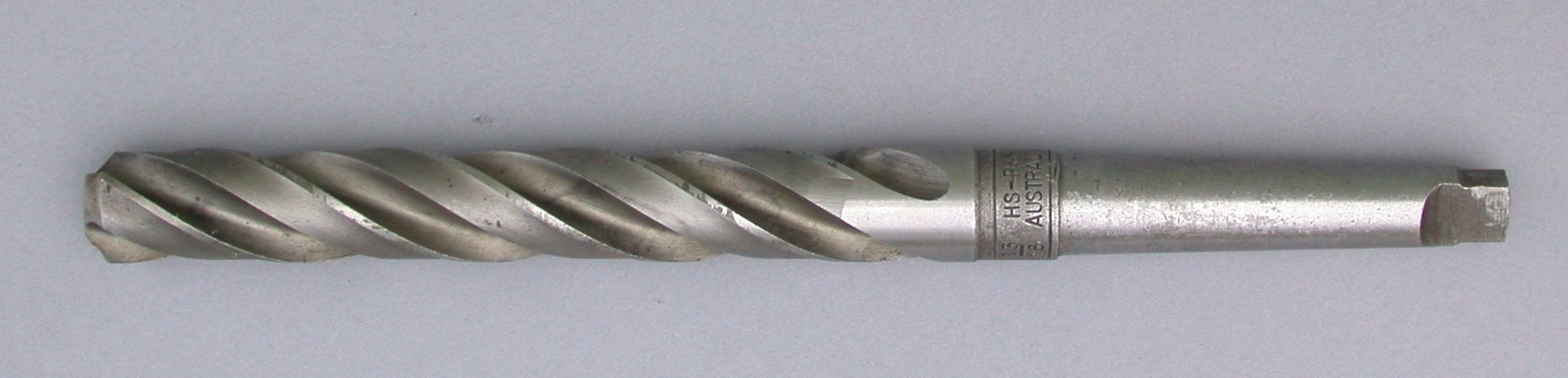 3 fluted core drill as used on castings etc.